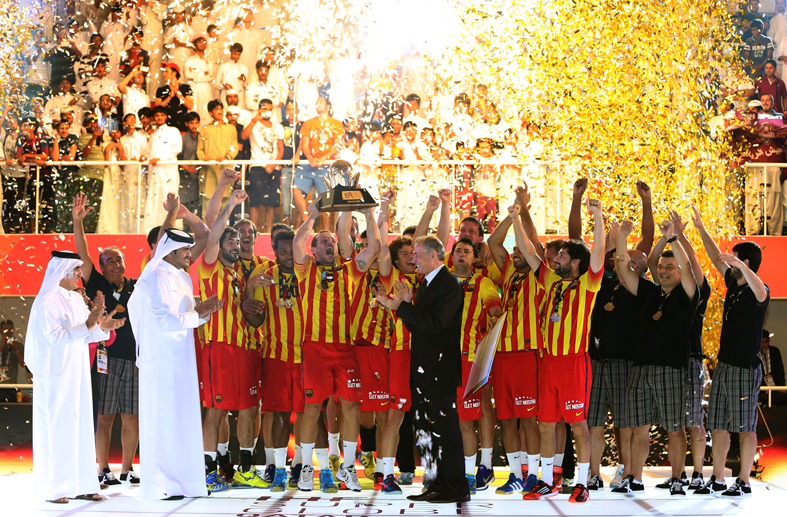 Members of FC Barcelona Intersport celebrate after winning the 2013 IHF Super Globe title at the Al Gharafa Indoor Hall. Pic by Vinod Divakaran